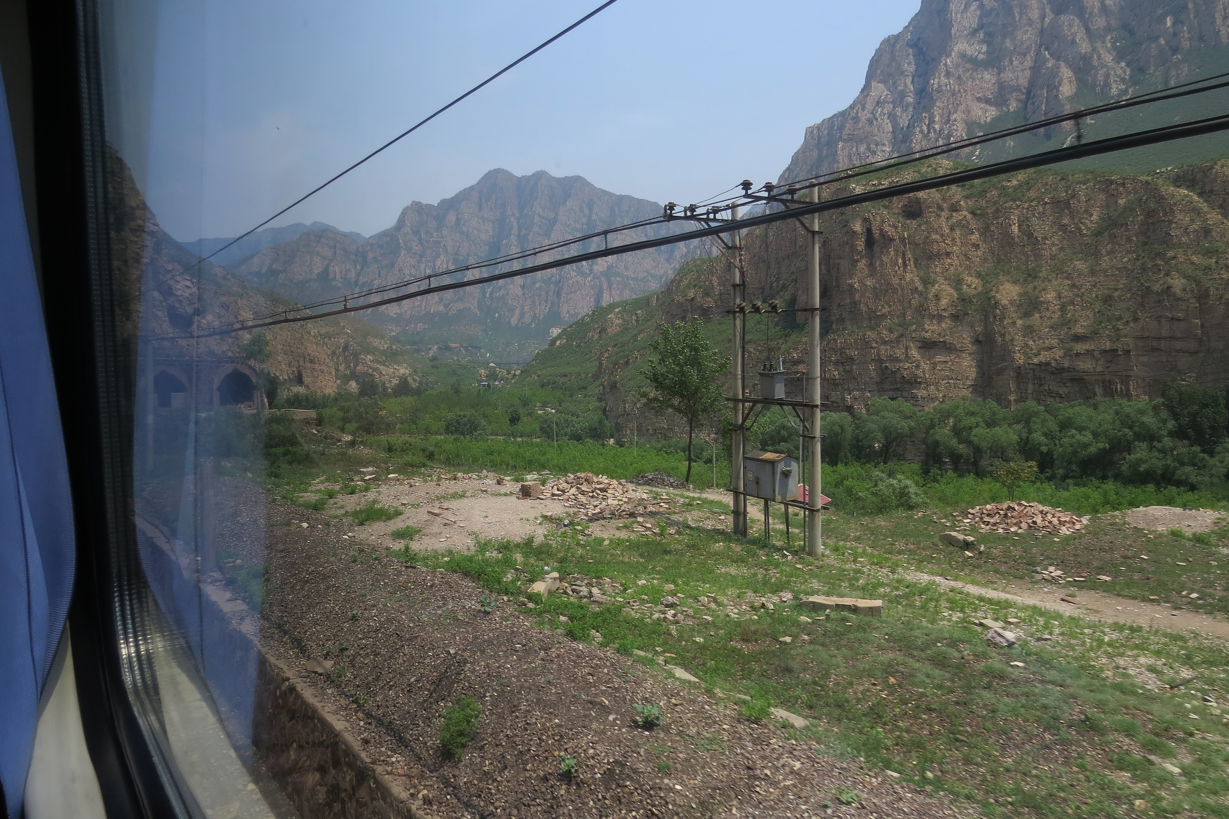 This station has already passed out of existence.